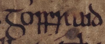 An excerpt from folio 27v of Oxford Bodleian Library MS Rawlinson B 503 (the Annals of Inisfallen). The excerpt concerns Gofraid mac Amlaíb meic Ragnaill, King of Dublin (died 1075) and reads: "Goffraid".